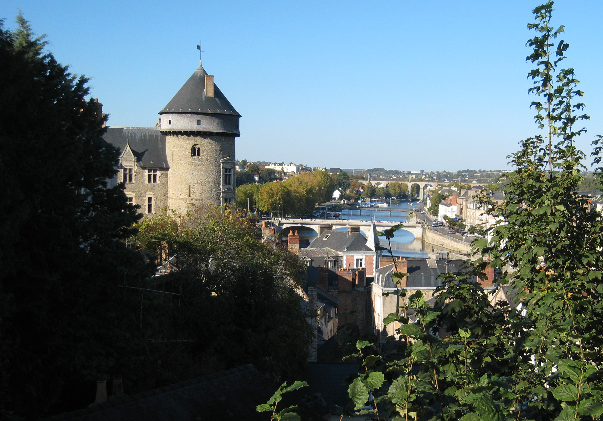 View on the Laval castle and on the banks of the river Mayenne, from the Parc de la Perrine.